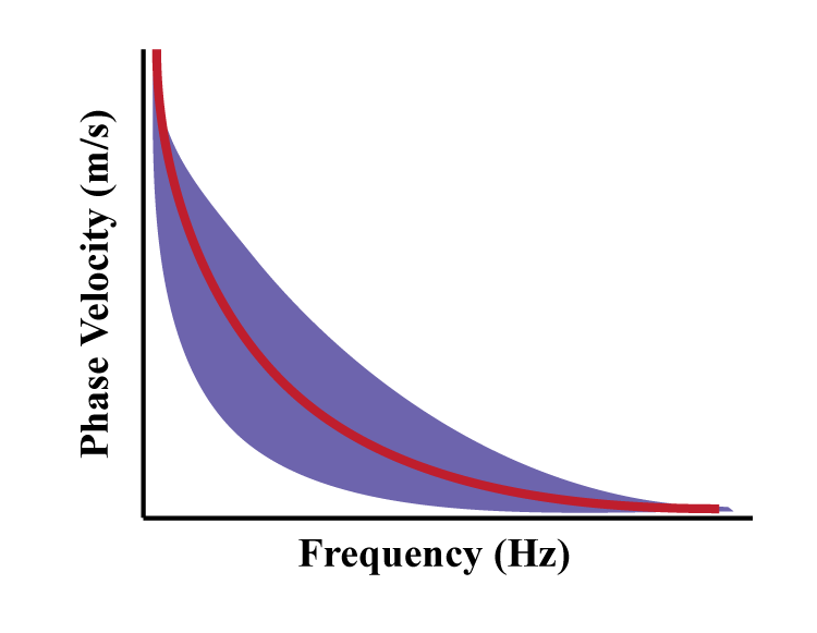 Model of what a dispersion curve might look like.